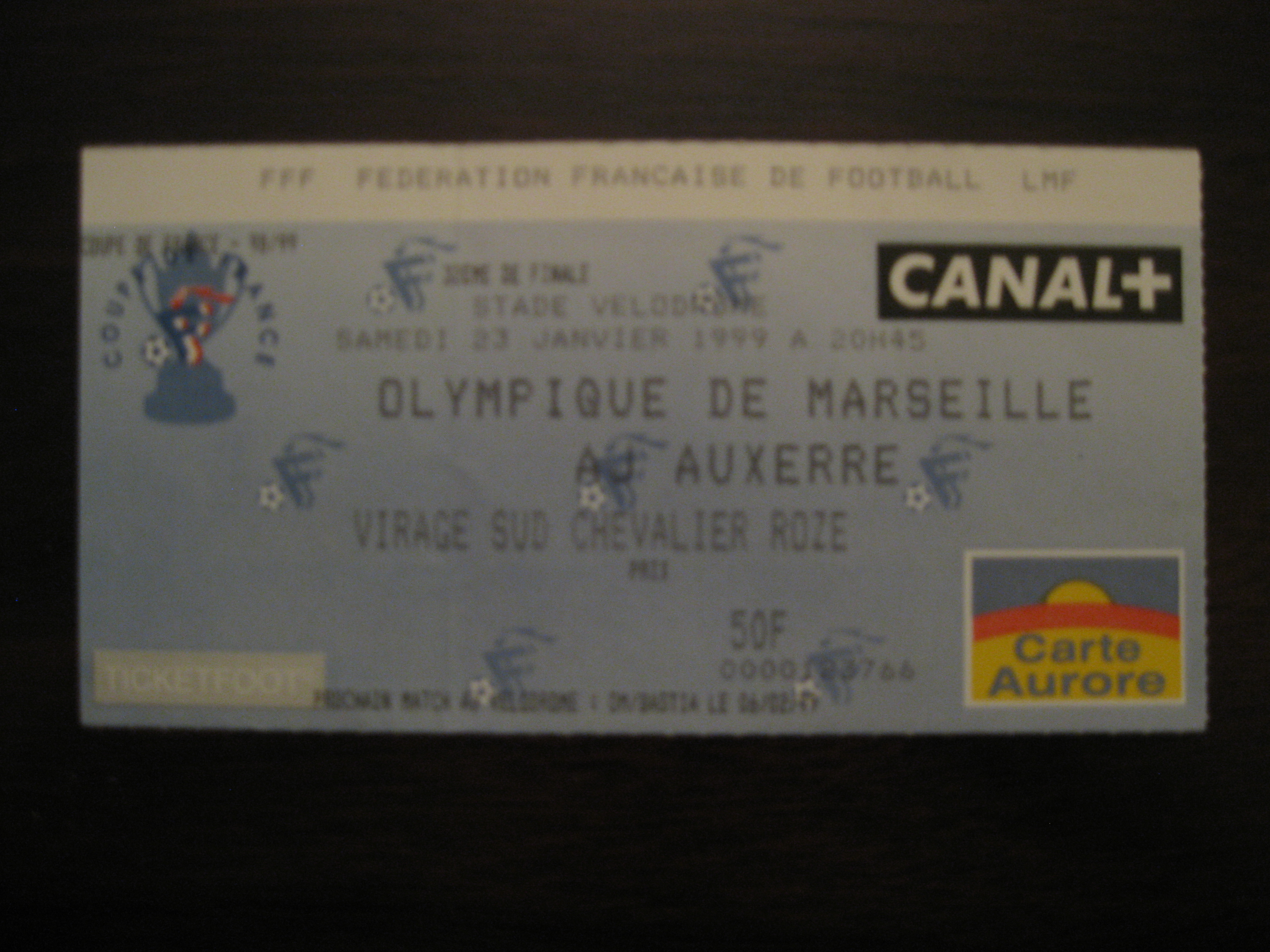 Olympique_de_Marseille_-_AJ_Auxerre_-_1998-1999 (French Cup)